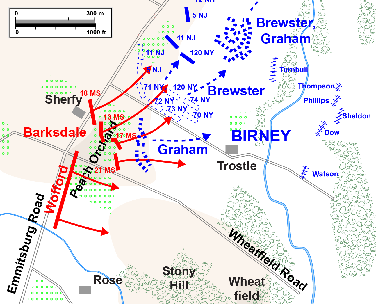 Barksdale's Charge at Peach Orchard